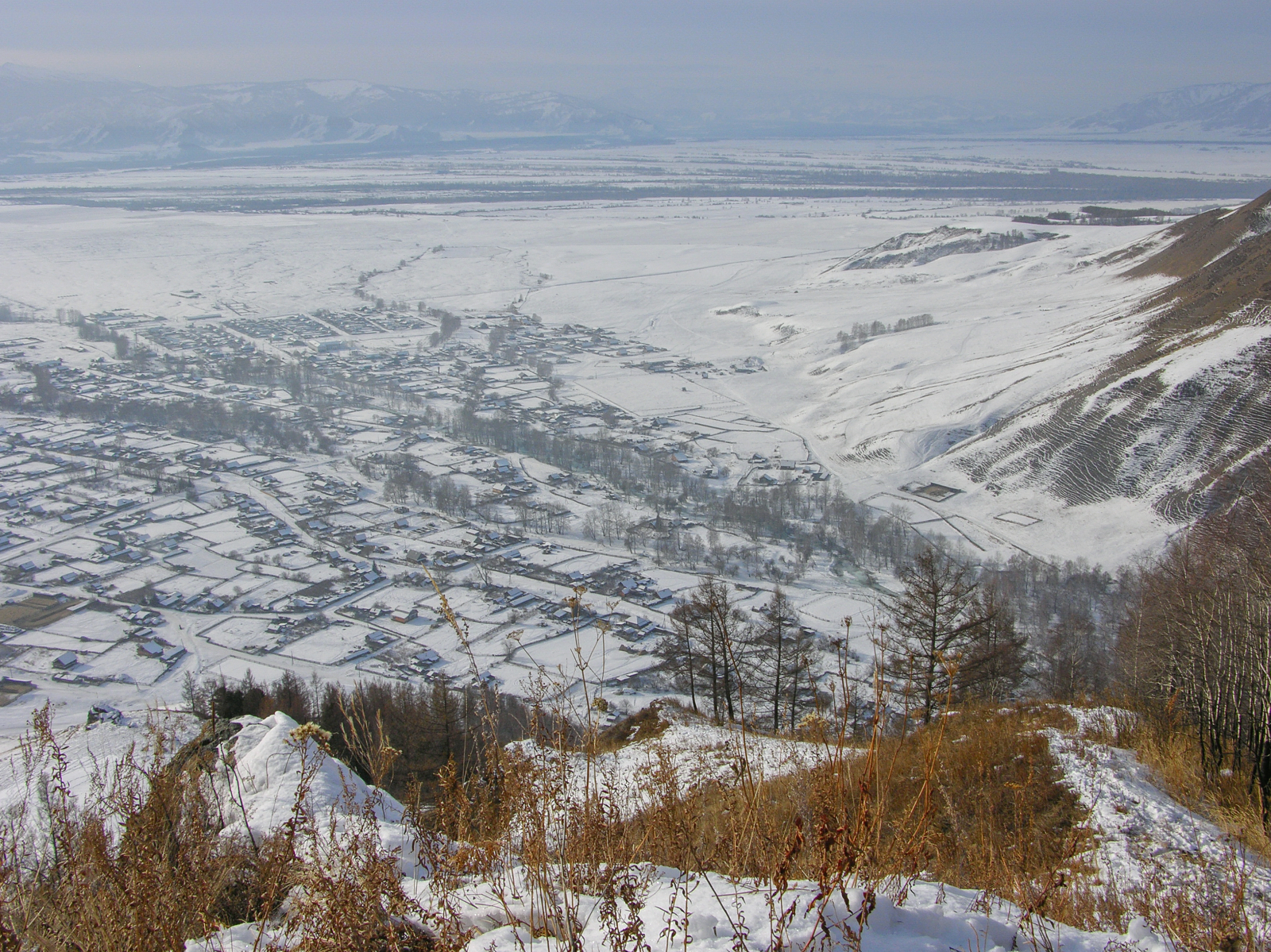 Uimon depression in winter, photo taken from Terekta mountain ridge towards Katun ridge. Chendek village below